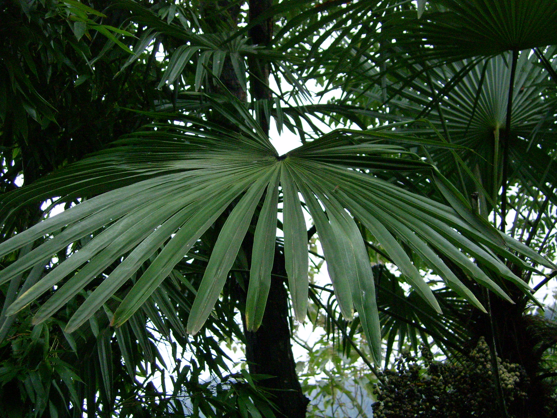 Chusan Palm Trachycarpus fortunei leaf, Zhuji, Zhejiang, China